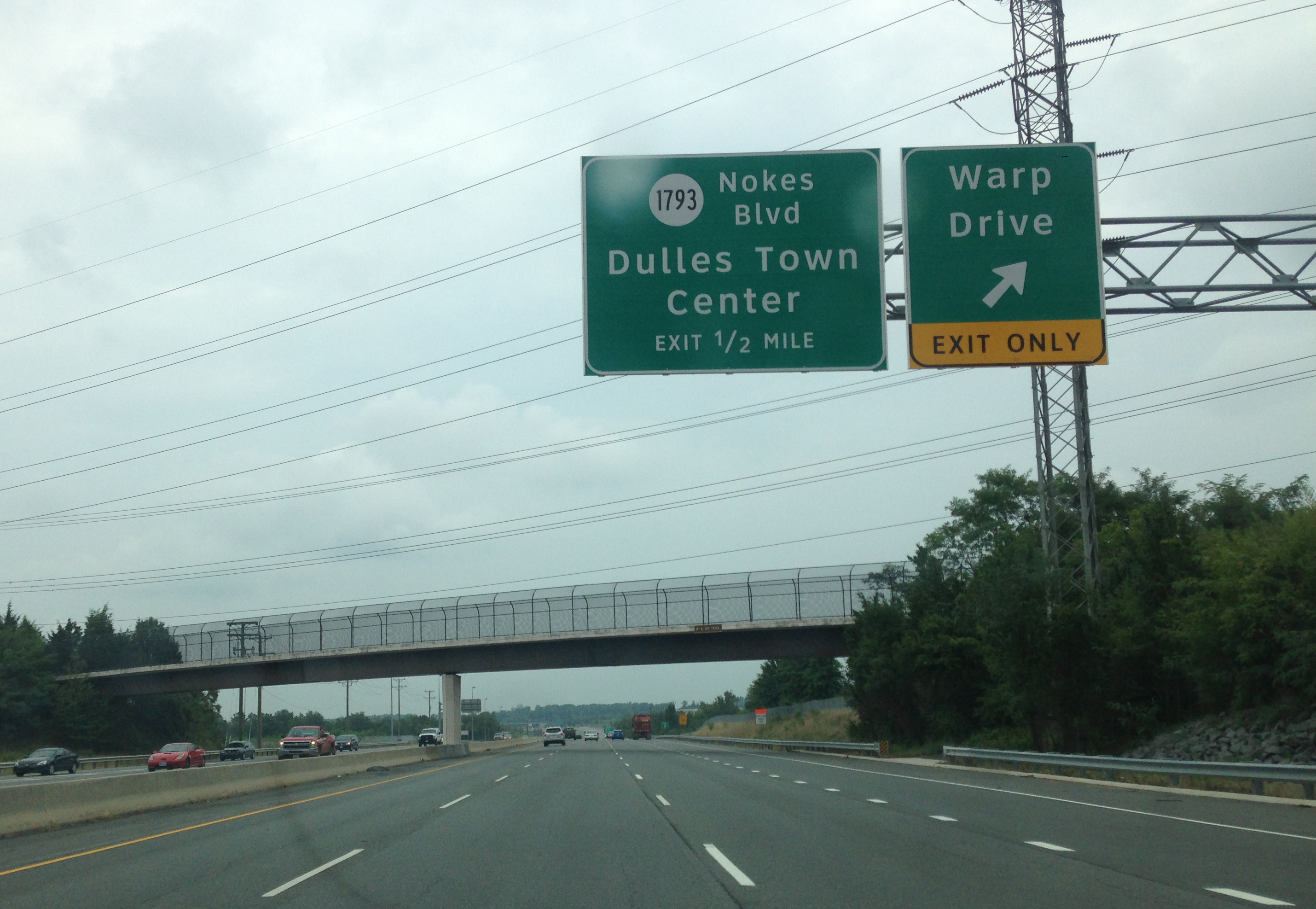 View north along Sully Road (Virginia State Route 28) at the Warp Drive exit in Sterling, Loudoun County, Virginia